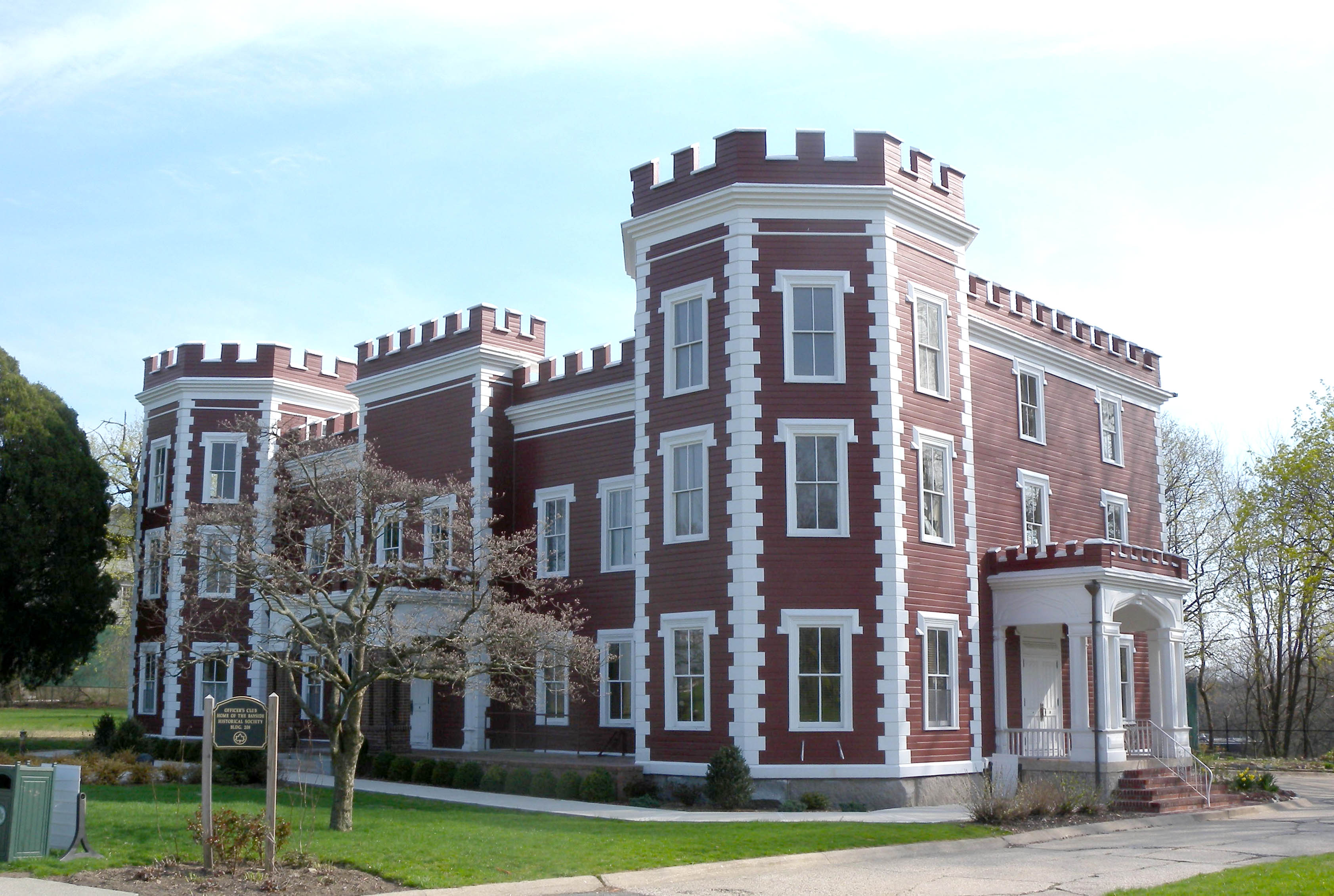 Looking southeast at Fort Totten Officers Club on a mostly cloudy afternoon. NYCLPC designation 1974.